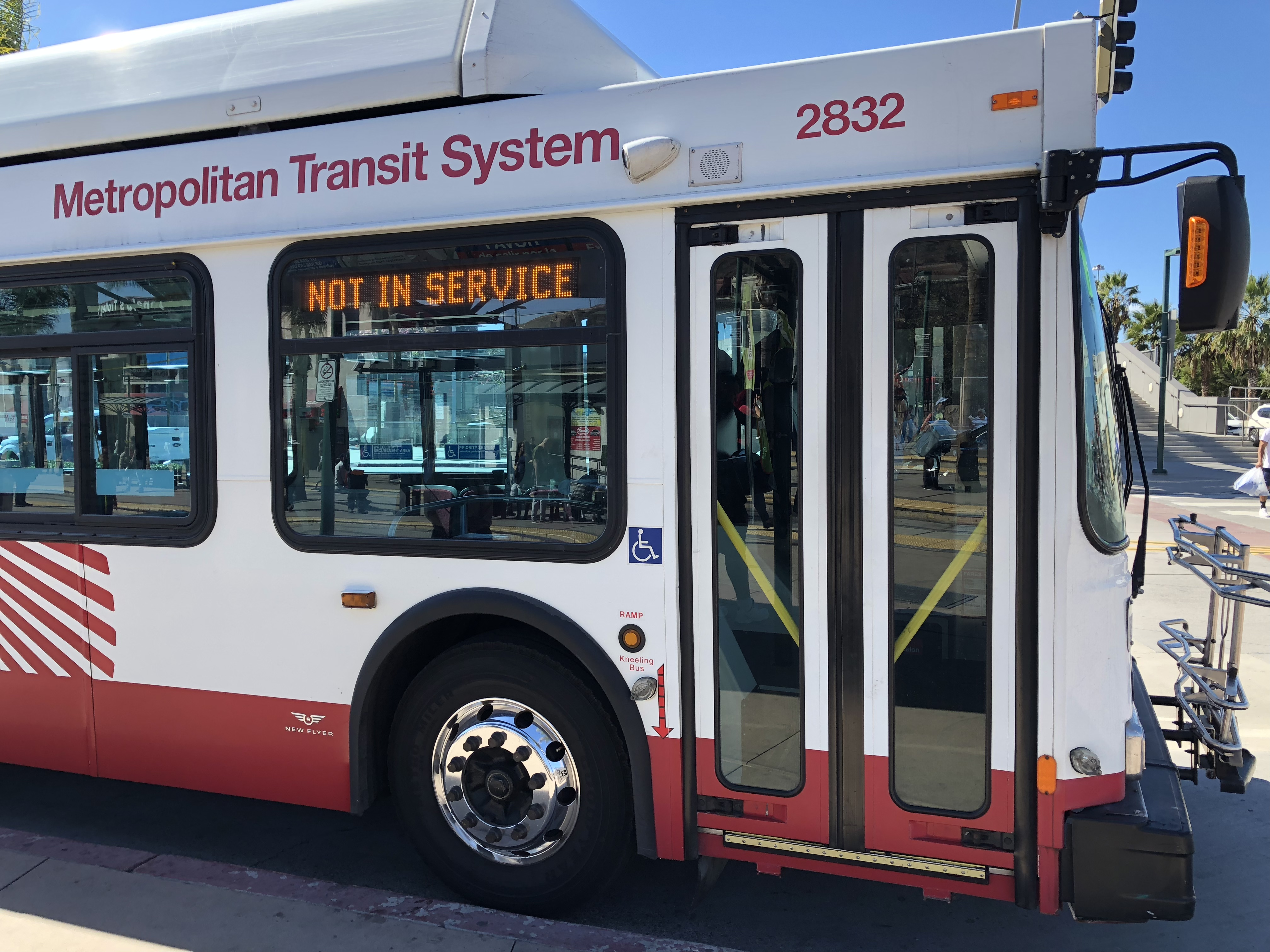 San Diego Metropolitan Transit System bus.